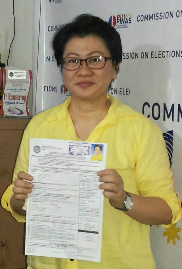 2nd District of Samar Board Member Alma Uy-Lampasa filing her Certificate of Candidacy (COC) for 2016 election on COMELEC